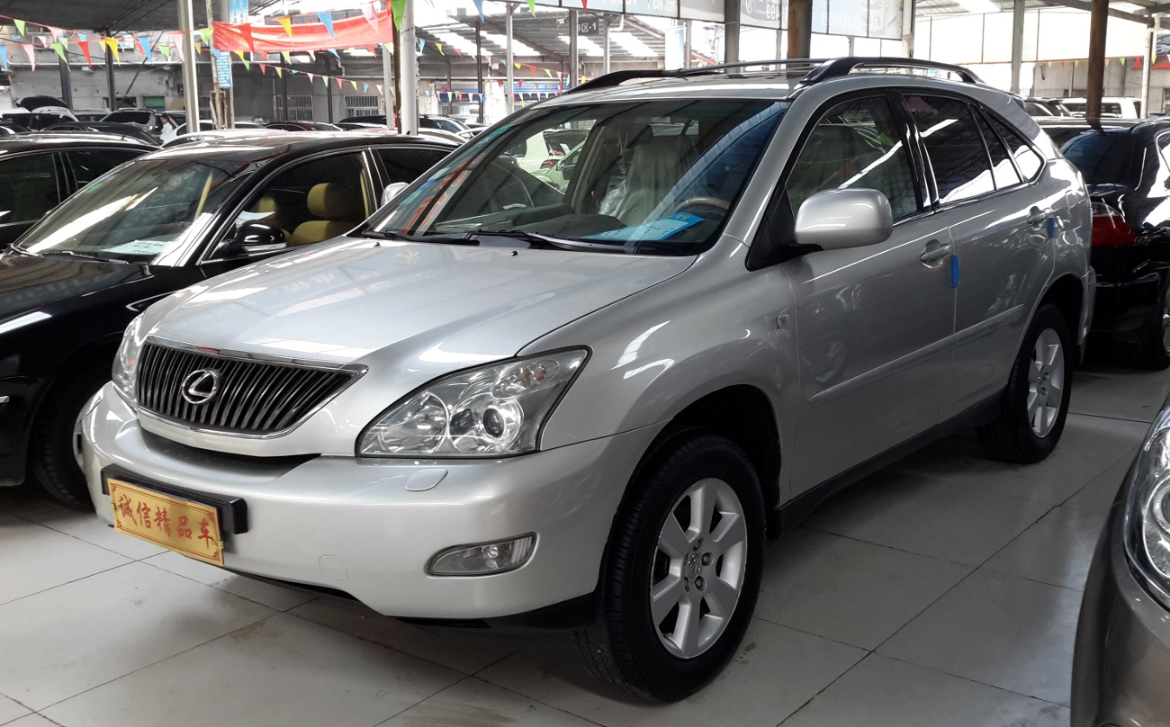 Lexus RX XU30 photographed in Xi'an, Shaanxi province, China.